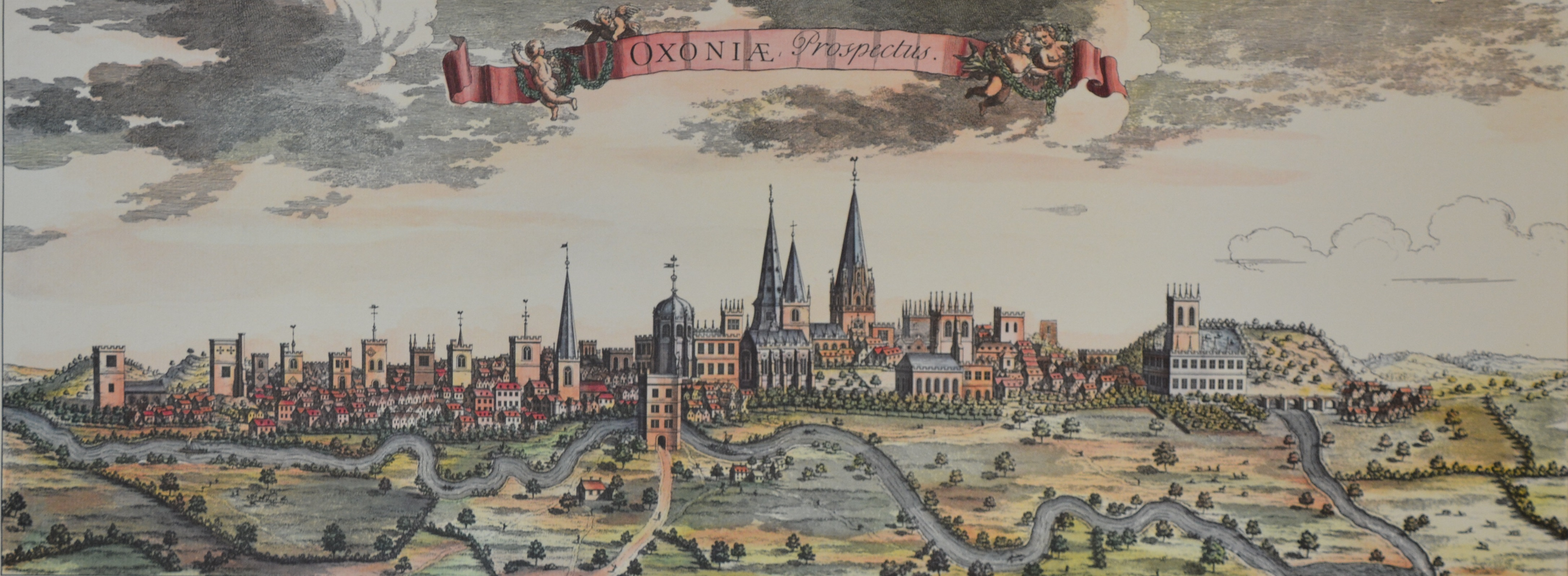 Oxford 1730, anonymous